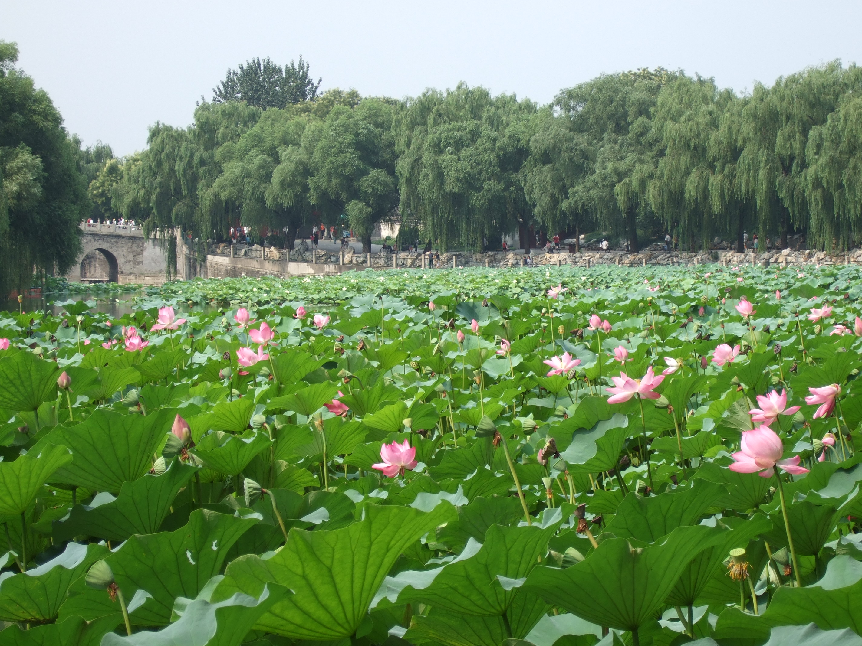 The Beihai Park in Beijing